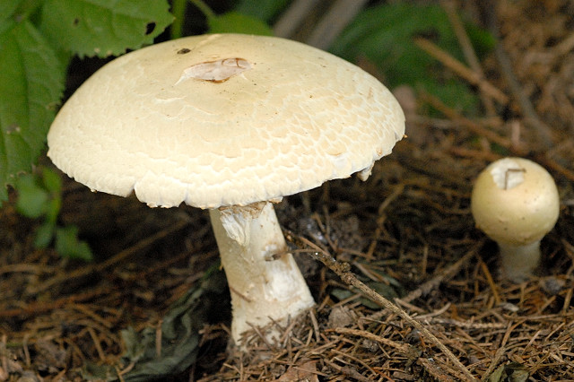 Please contact James Lindsey when you think this is a different taxon. James Lindsey, the copyright holder of this work, hereby publishes it under the following licenses: Attribution: James Lindsey at Ecology of Commanster